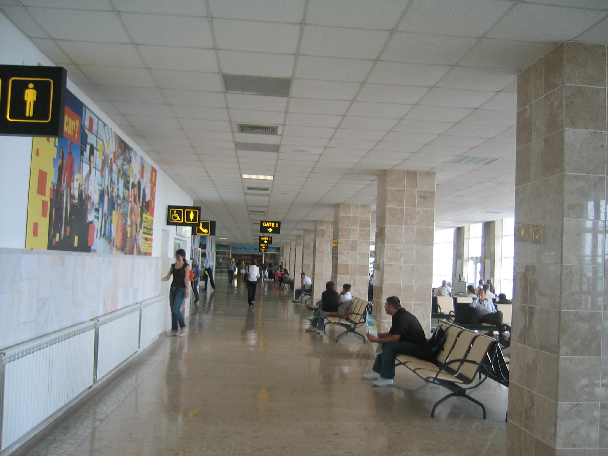 Constanta Airport Terminal